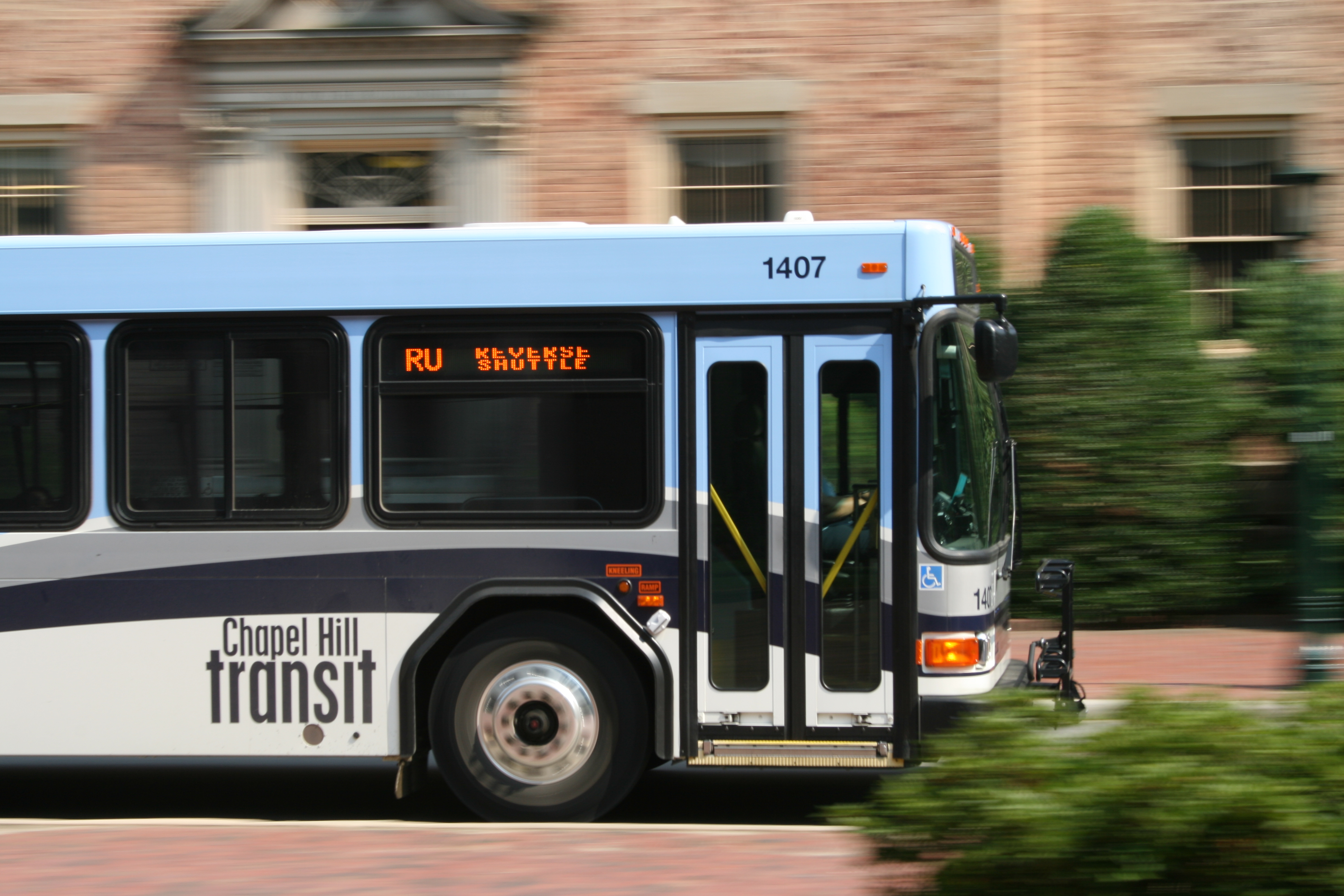 A Chapel Hill Transit bus passing South Building on Cameron Ave at the University of North Carolina at Chapel Hill.